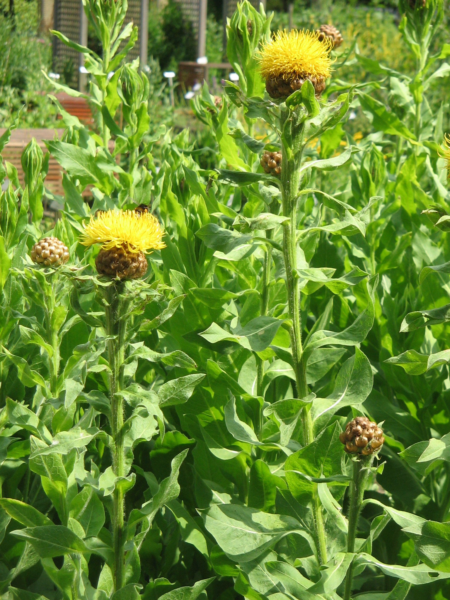 Centaurea macrocephala